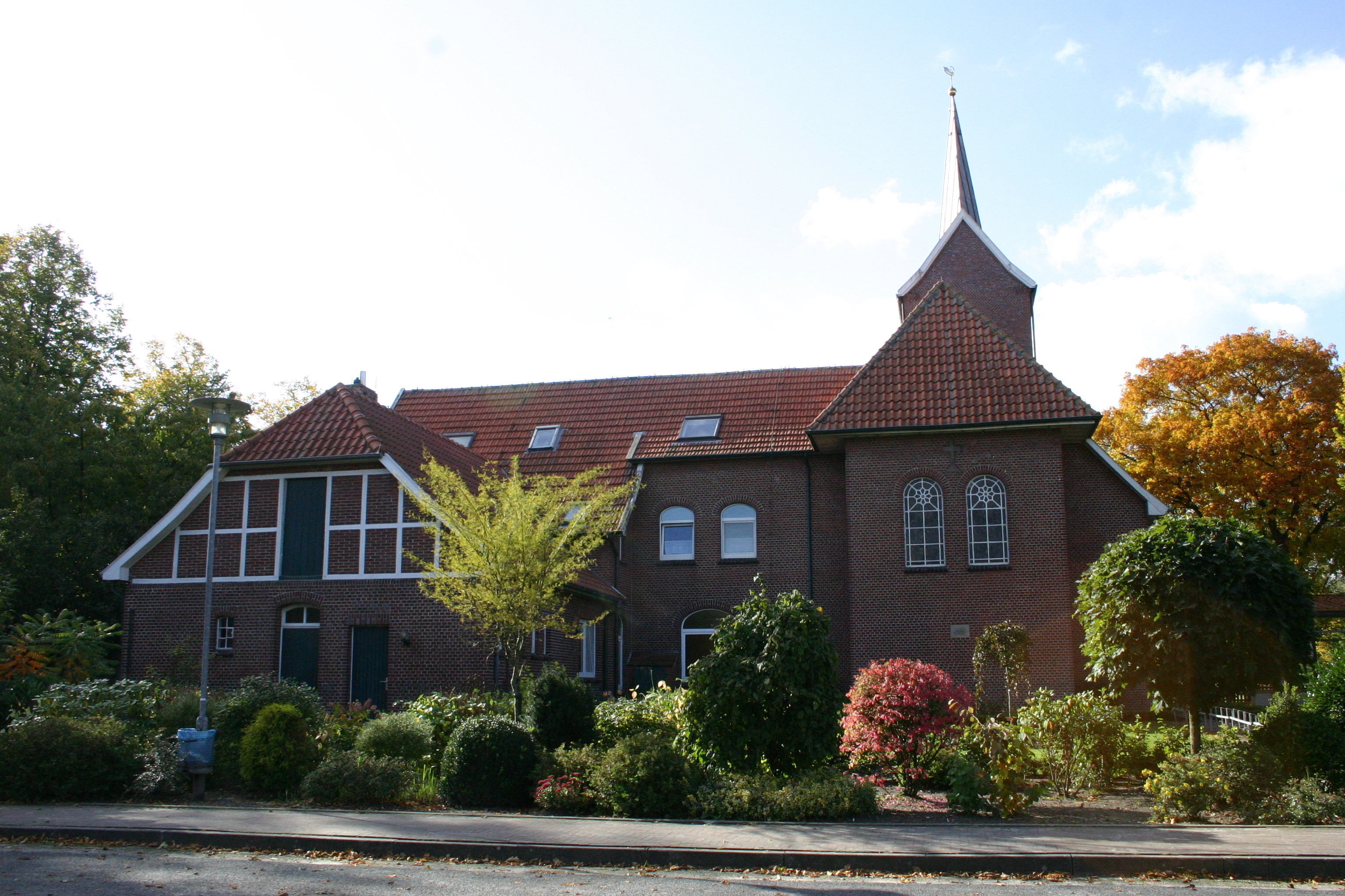 Historic Andrew's Church in Firrel, district of Leer, East Frisia, Germany